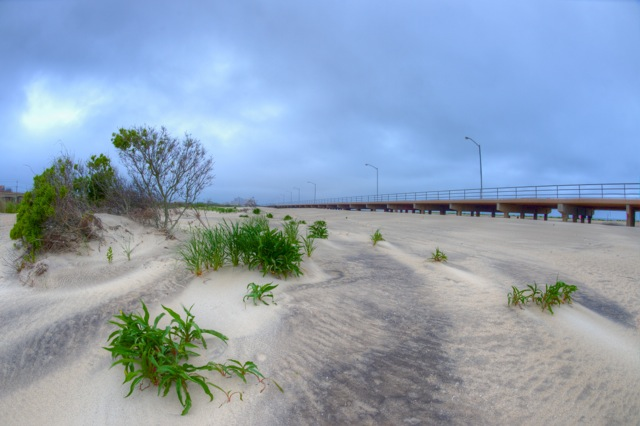 Looking east from Beach 48th St at location of former bungalows destroyed for development that didn't happen. This picture shows the barrenness of the developer's vision for Far Rockaway; whereas Richard George and the BBPA have succeeded in preserving their historic bungalows between 24th-27th Street